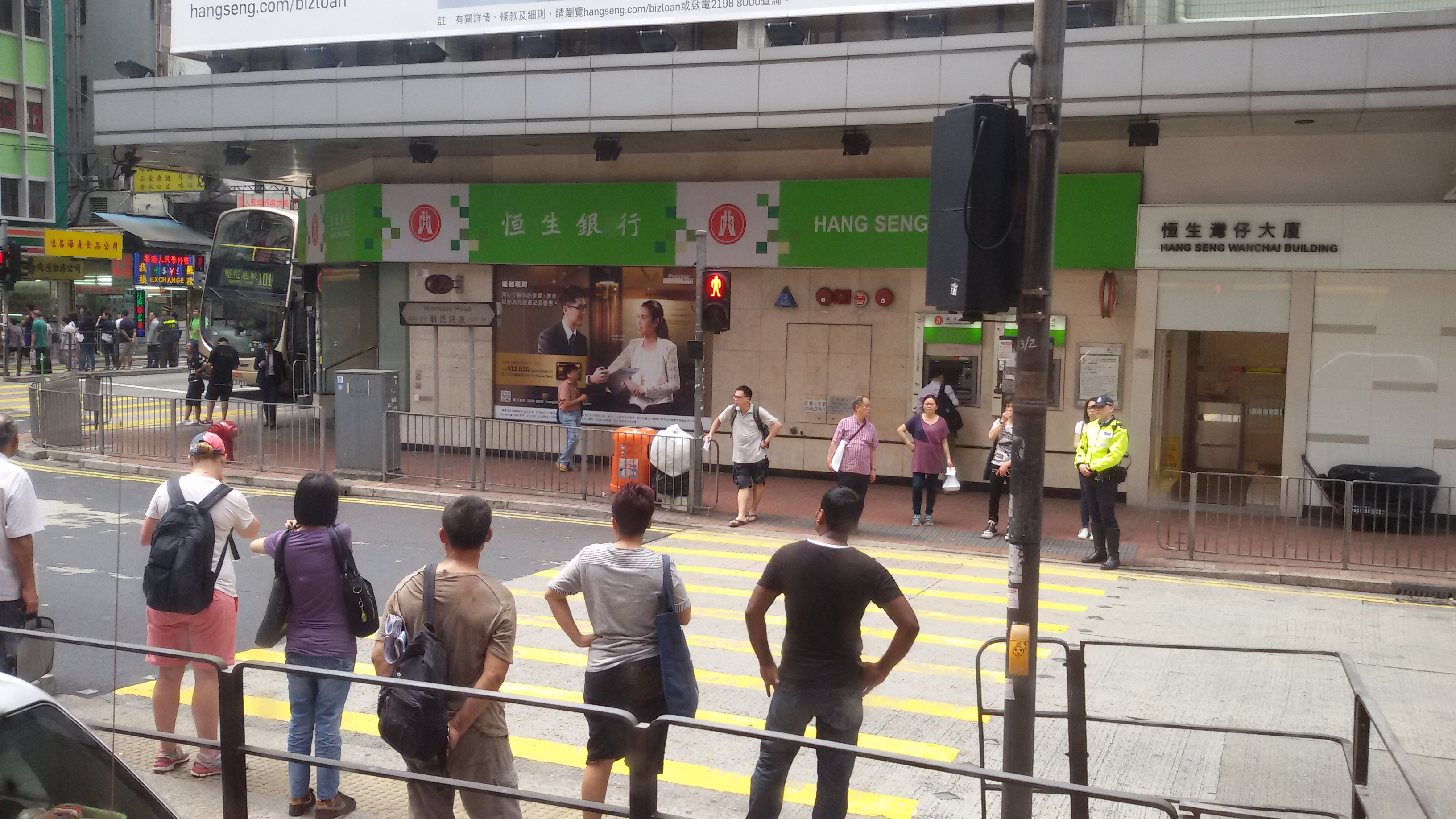 Hennessy Road, Wan Chai, Hong Kong 粵語: 香港灣仔軒尼詩道